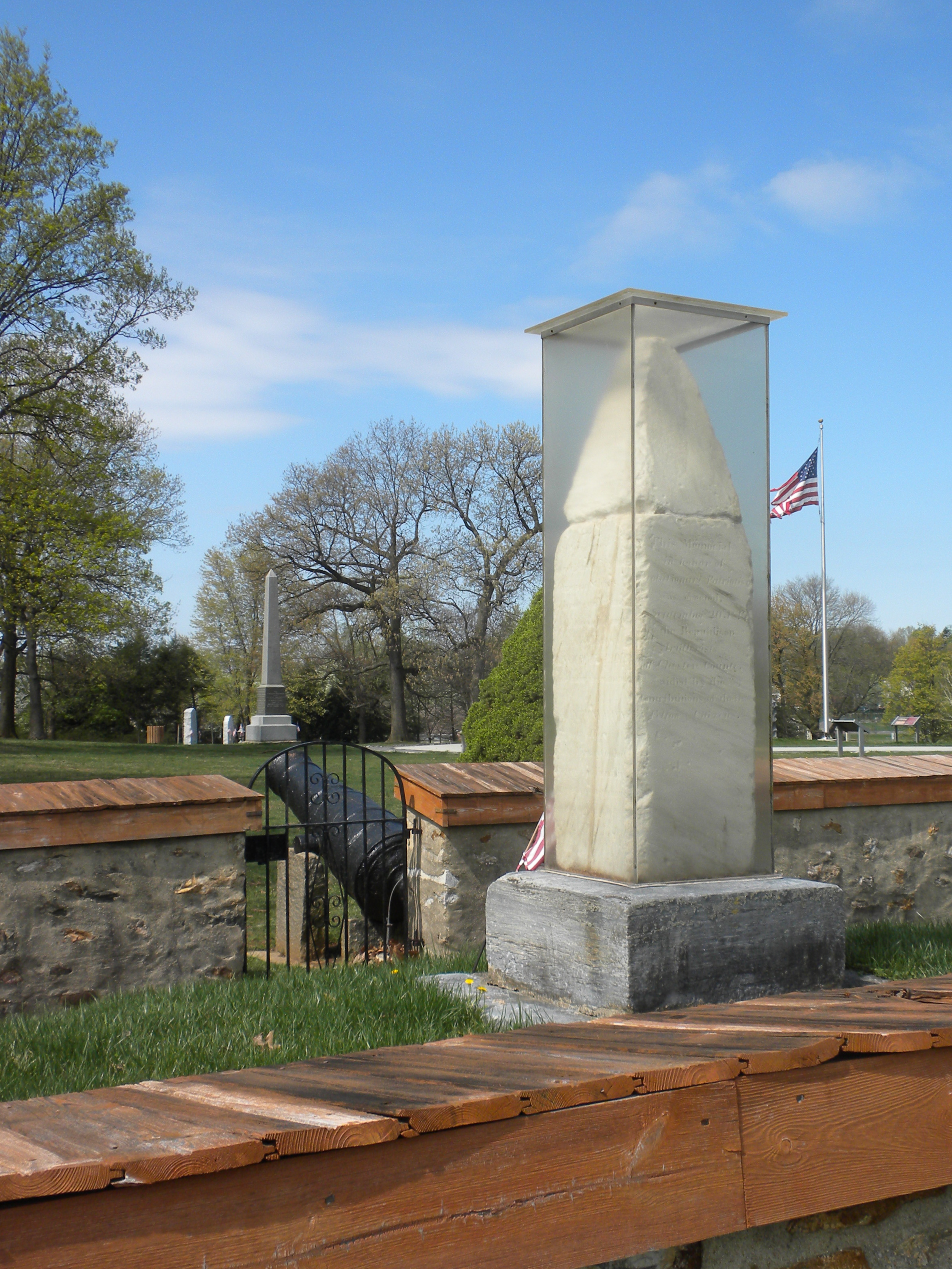 Paoli Battlefield Site and Parade Grounds on NRHP since October 23, 1997. The site is roughly bounded by Warren, and Monument Avenues, and Sugartown Road, in Malvern (NOT Paoli), Chester County, Pennsylvania. This shows parts of the old obelisk, and in the background the new obelisk that replaced it. The wall supposedly encloses the graves of the "Paoli Massacre" - Continental soldiers under Mad Anthony Wayne, who lost an embarrassing battle here.